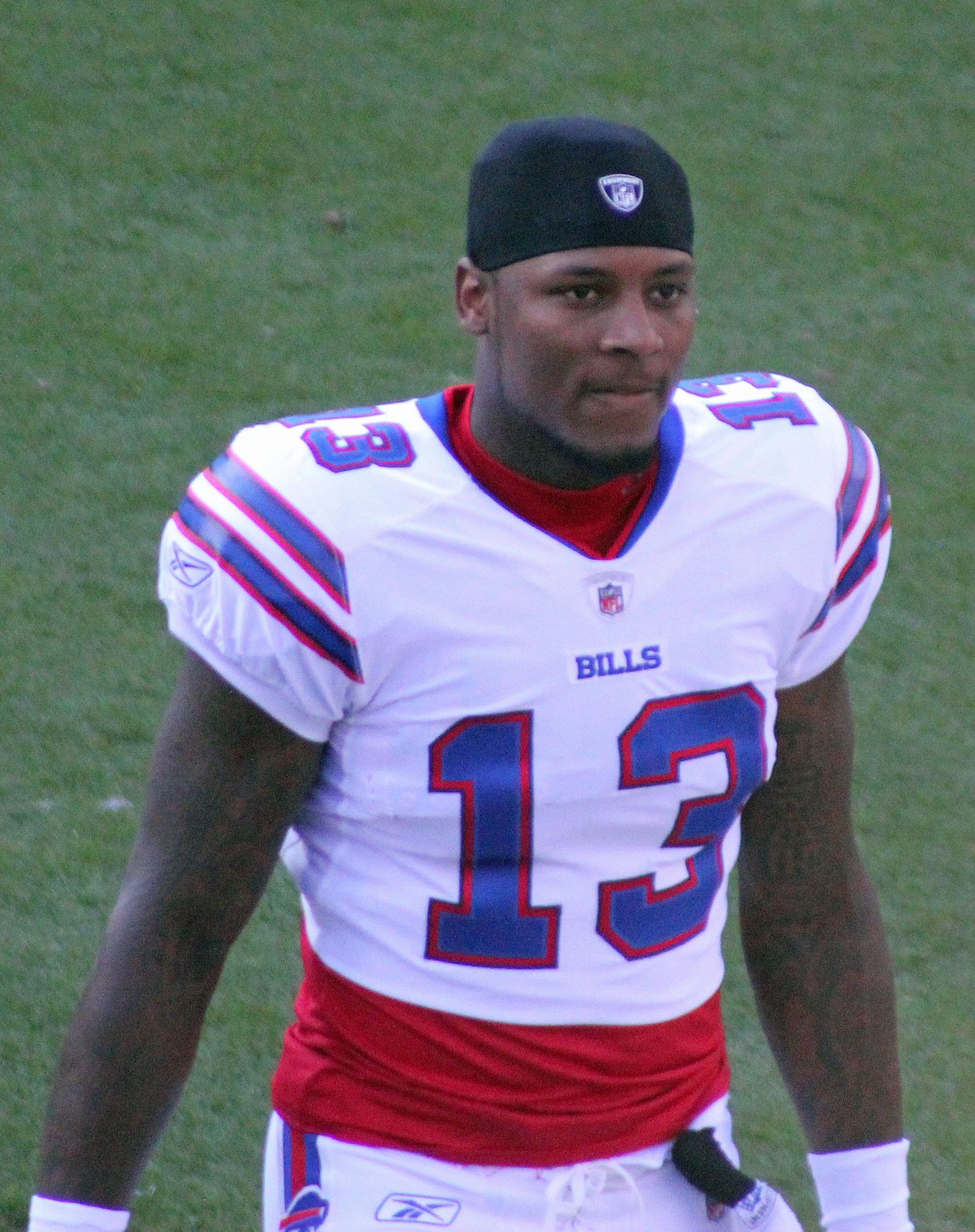 Steve Johnson, a National Football League player. He is also known as Stevie Johnson.